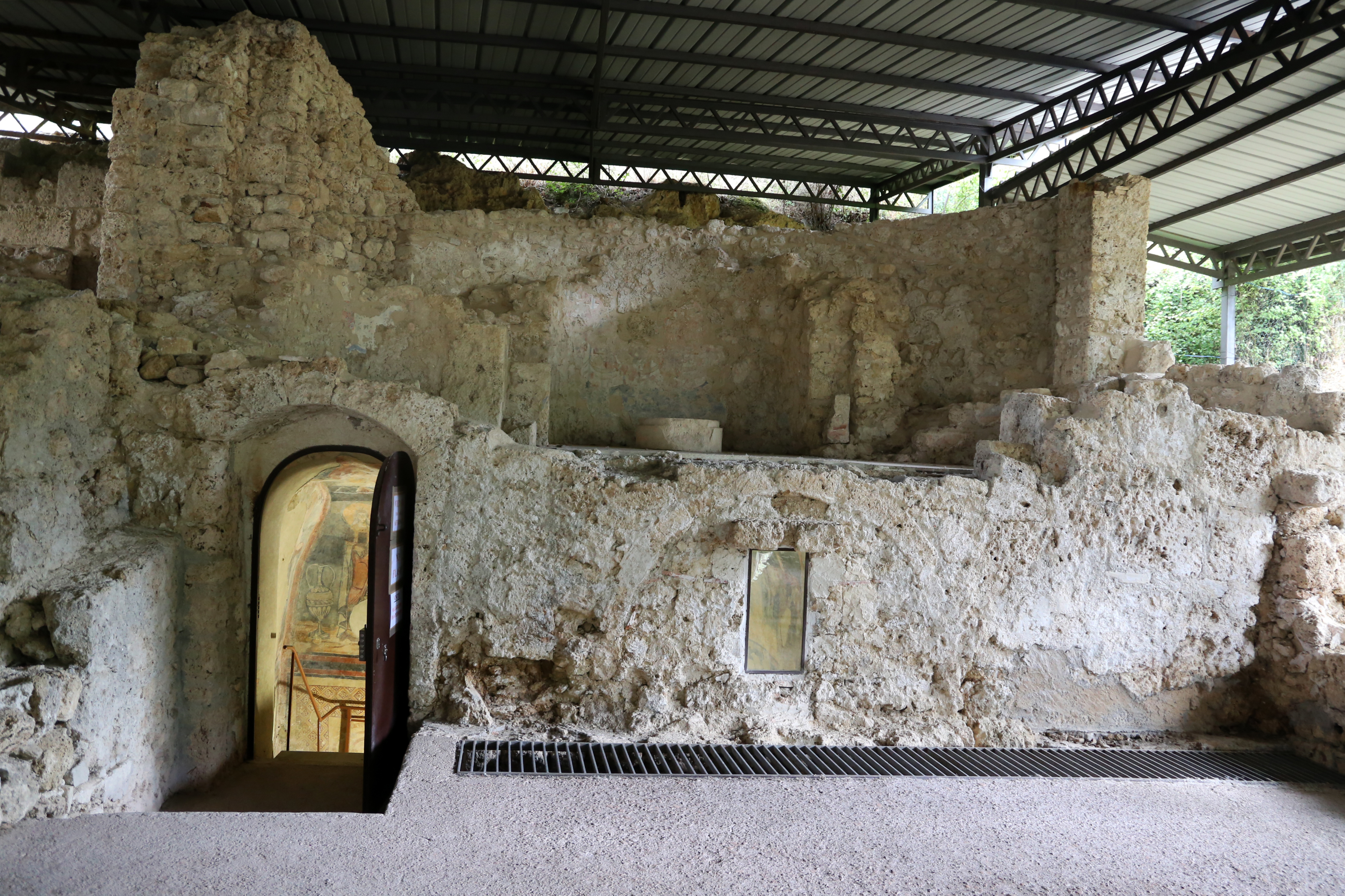 Epifanio Crypt